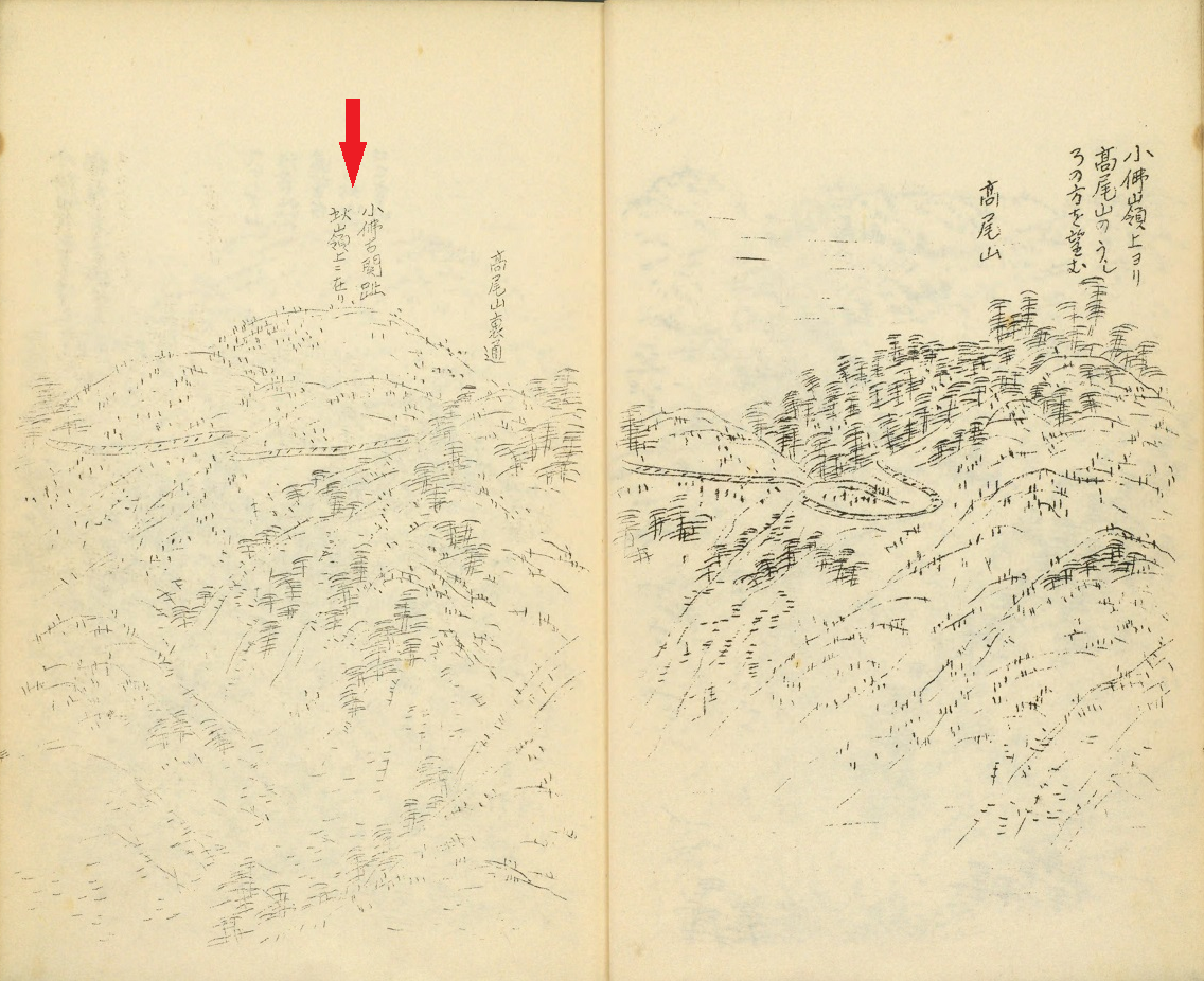 Musashi Meisho Zue,Tamagun no Bu 8